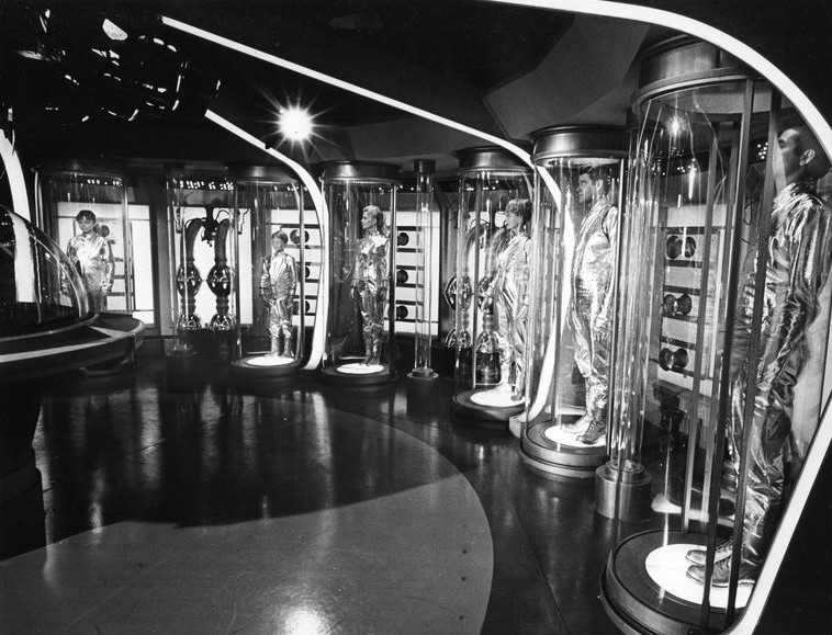 Photo from the program premiere of Lost in Space. The photo shows the Robinson family and the geologist who traveled with them being placed in suspended animation before beginning their space flight. Shown from left are:Angela Cartwright, Billy Mumy, Marta Kristen, June Lockhart, Guy Williams, and Mark Goddard.